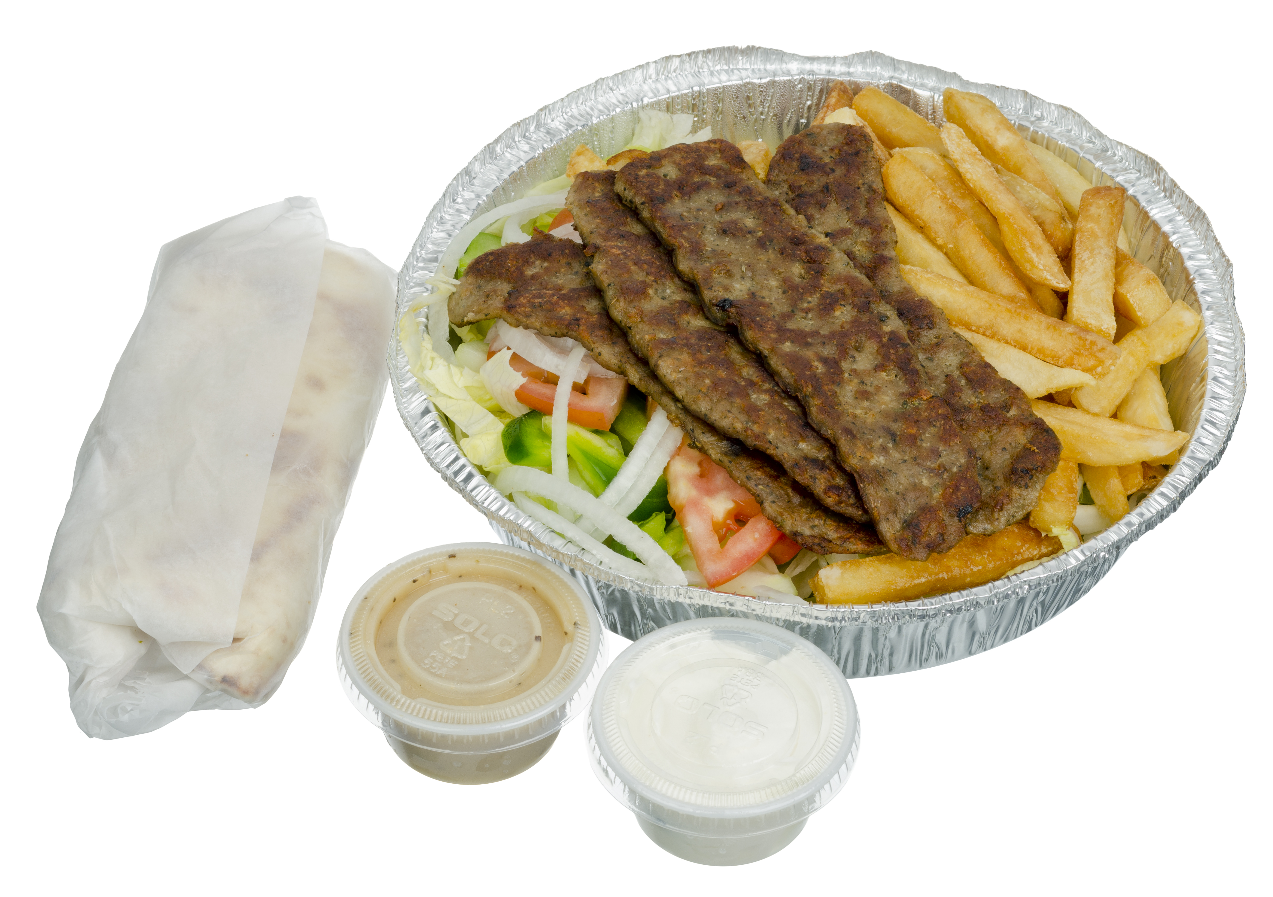 A gyro platter in a to-go container. This gryo came from a diner in Brooklyn, New York, where round foil containers are common to-go holders. This is a gryo platter, which comes with french fries, pita bread, onion, tomato, lettuce, green pepper, yogurt spread, another sauce, and... that gryo meat?. It came in a brown paper bag with plastic silver, napkins and ketchup, mustard and mayo packets.